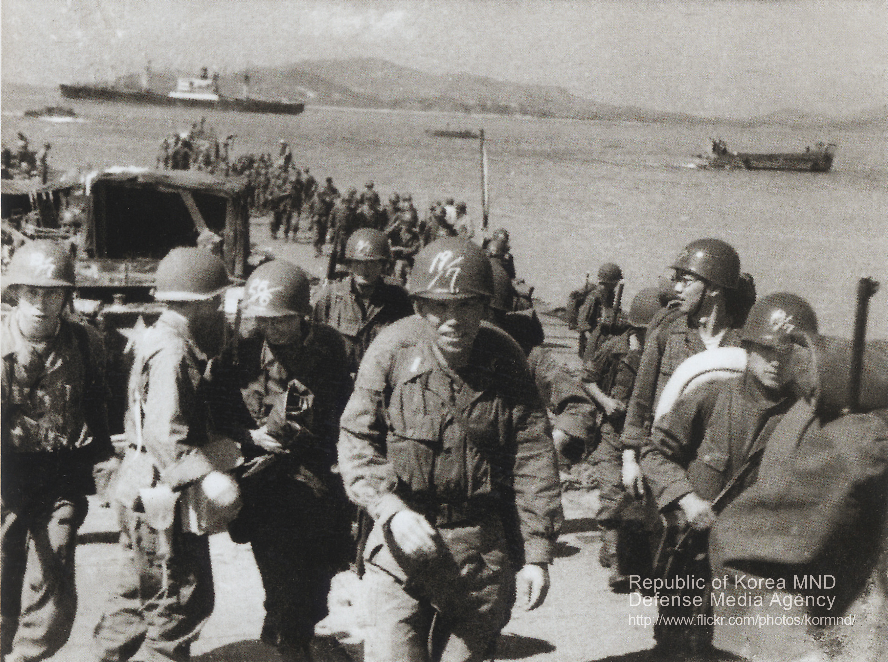 2010 국방화보 Rep. of Korea, Defense Photo Magazine 국군2사단 17연대 장병들이 인천 월미도에 상륙하고 있다. 17th regiment of the 2nd ROK Division landing on Wolmi-do, Incheon.